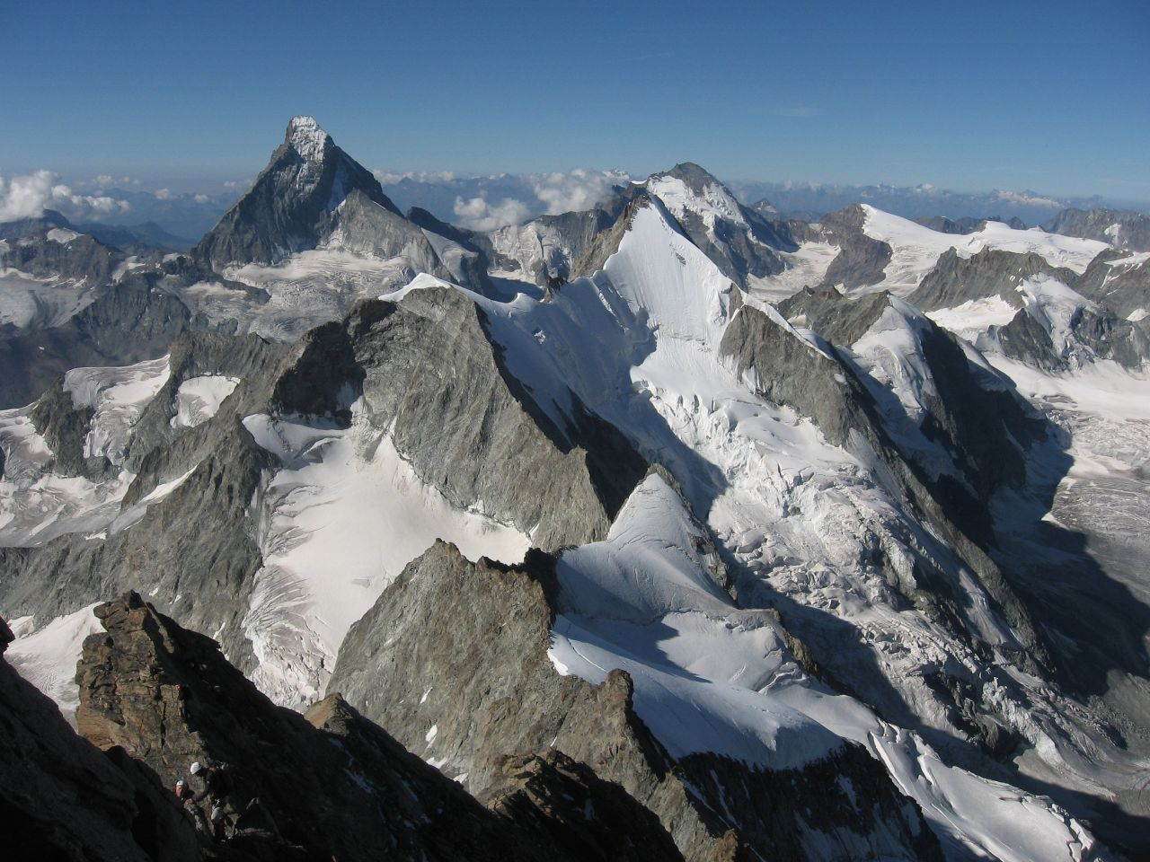 The Matterhorn, on the right the Dent d'Herens. In the foreground the SE ridge to the Zinalrothorn. In the centre the north face of Obergabelhorn